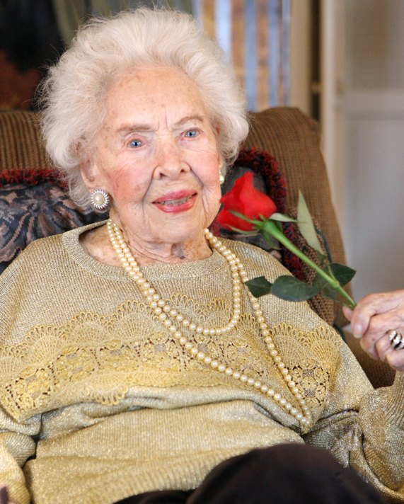 Doris Eaton Travis with rose, photographed by Don Spiro, 2010